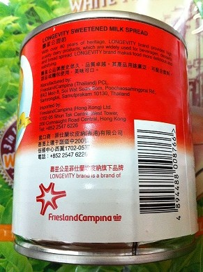 Longevity Brand, 壽星公 Condensed milk 煉奶